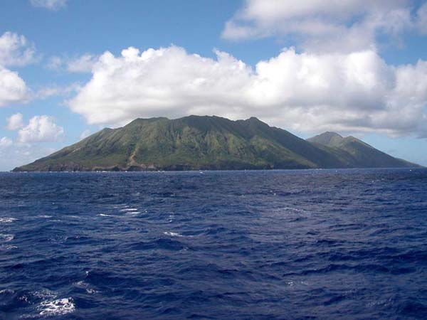 View Anatahan volcano in Northern Mariana Islands